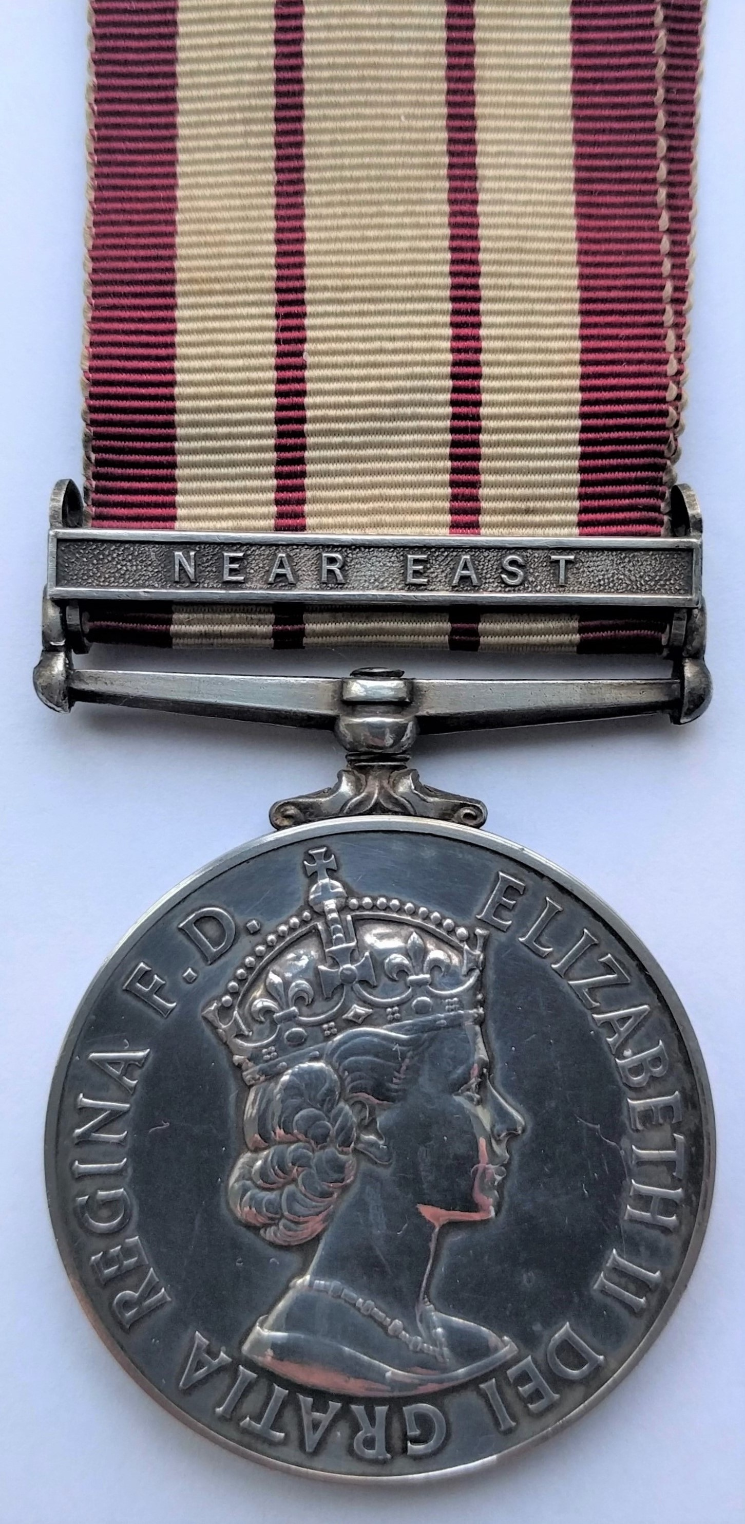 British campaign medal for service by the Navy and Marines in small campaigns.